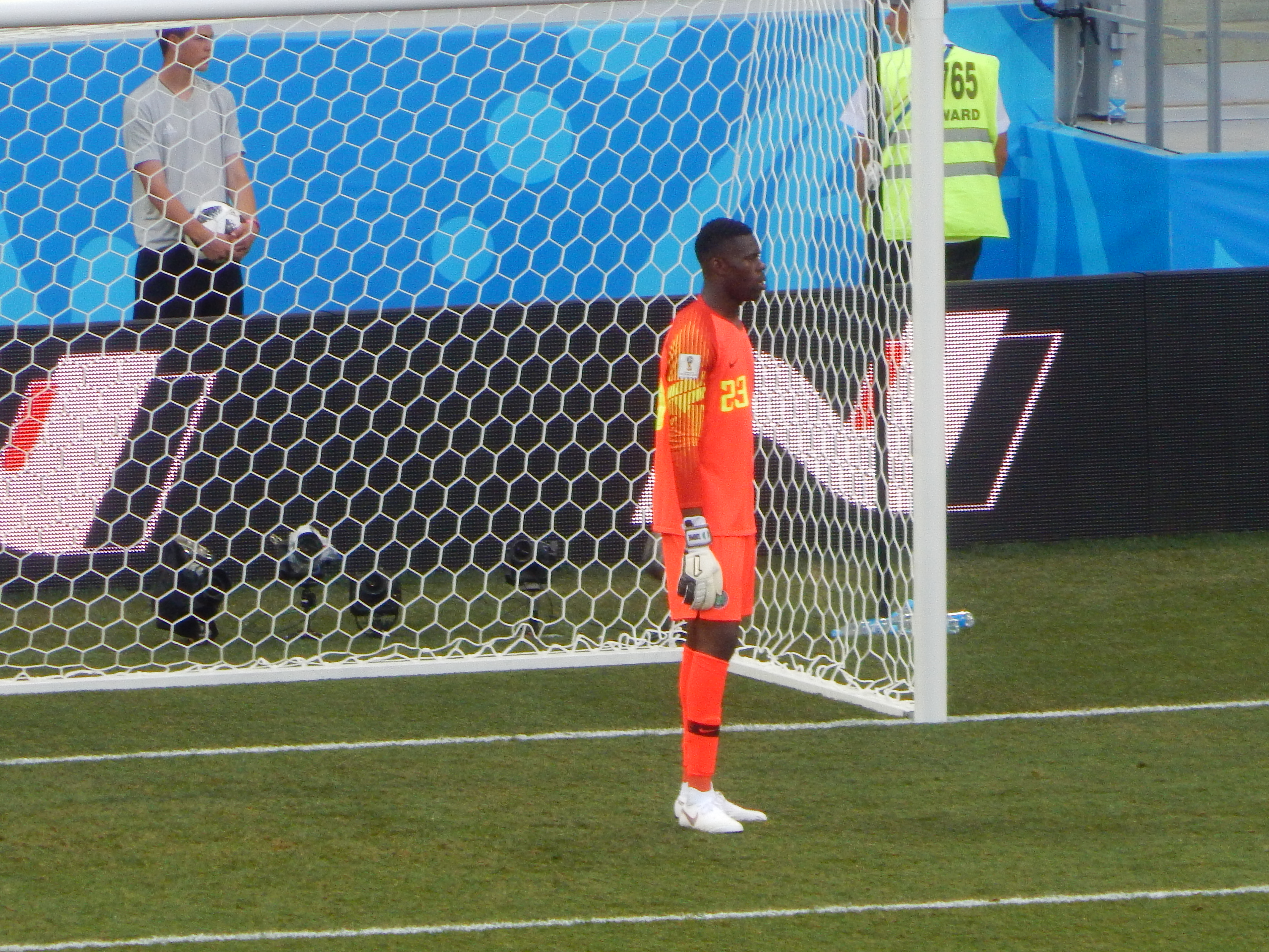 FIFA World Cup 2018, Group D, Nigeria vs. Iceland